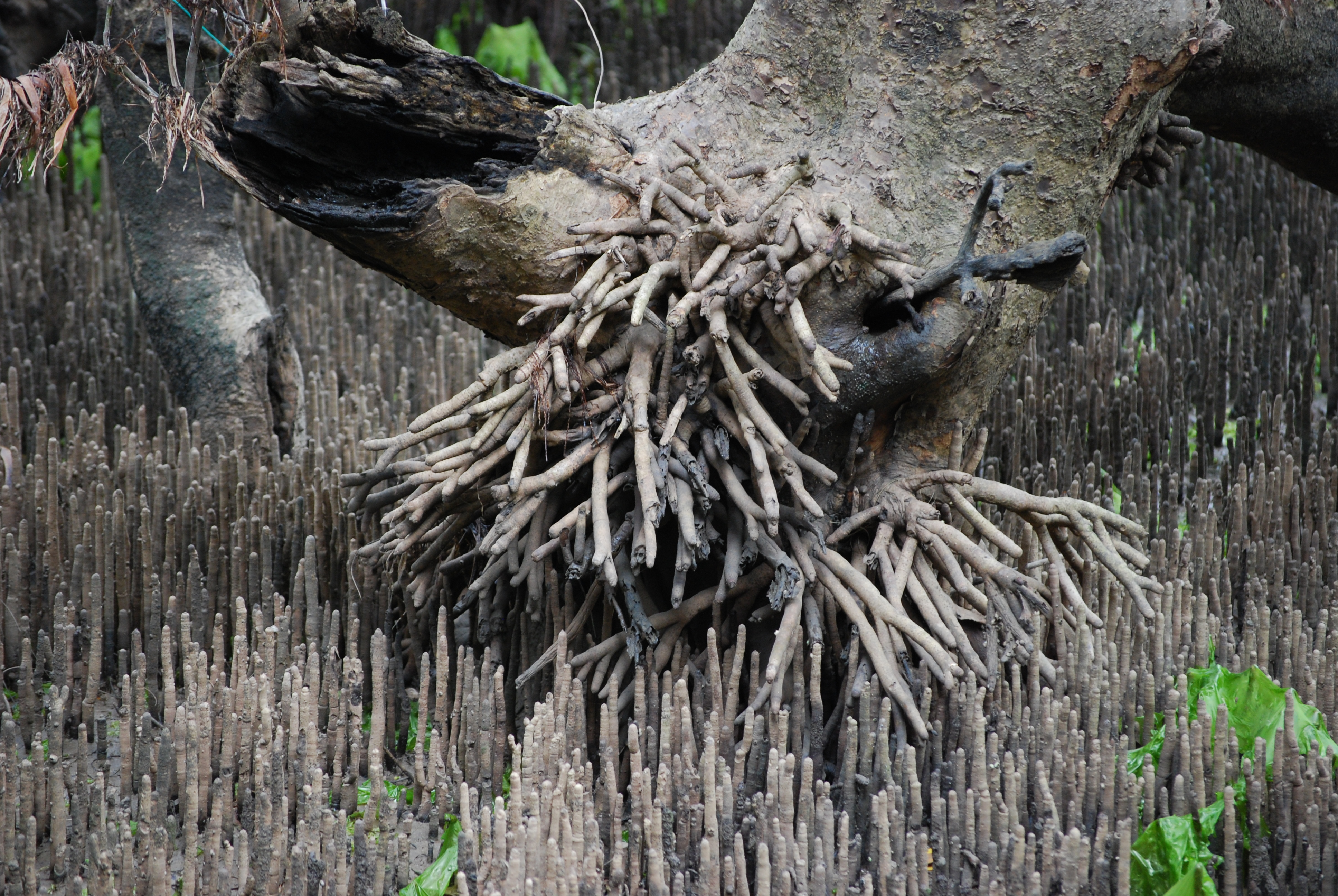 Arial roots (Pneumatophores) of the grey mangrove Avicennia marina var resinifera - Barker Inlet, South Australia